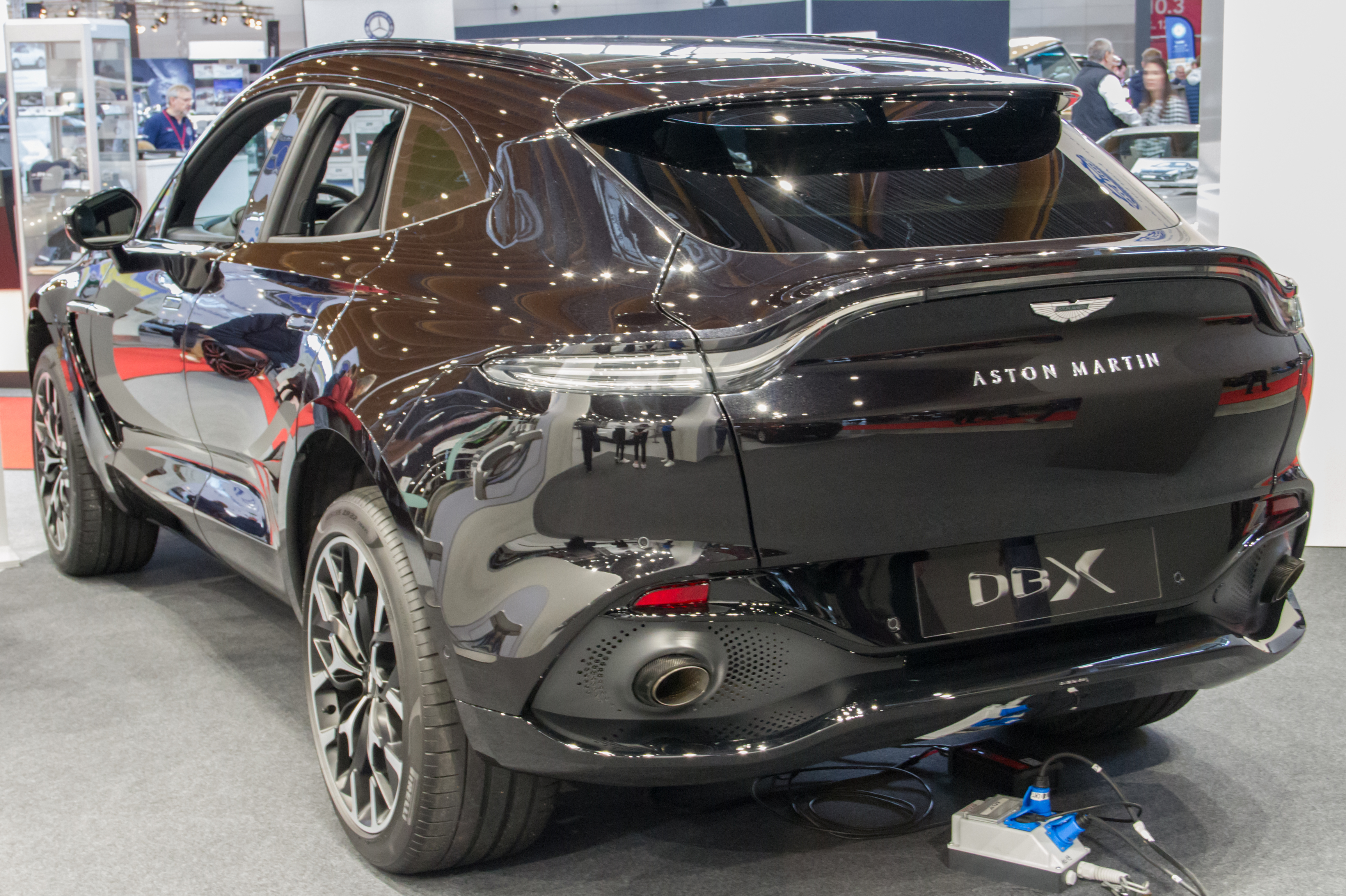 Aston_Martin_DBX at Retro Classics 2020